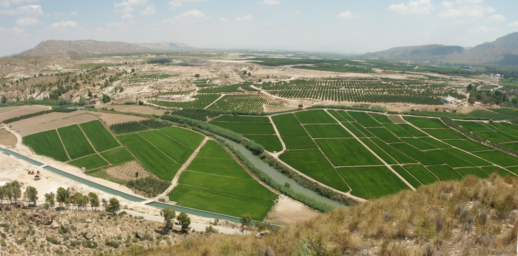 An original photograph by Bob Nienhuis of the Rio Segura in the Vega de Segura Alta near Calasparra.